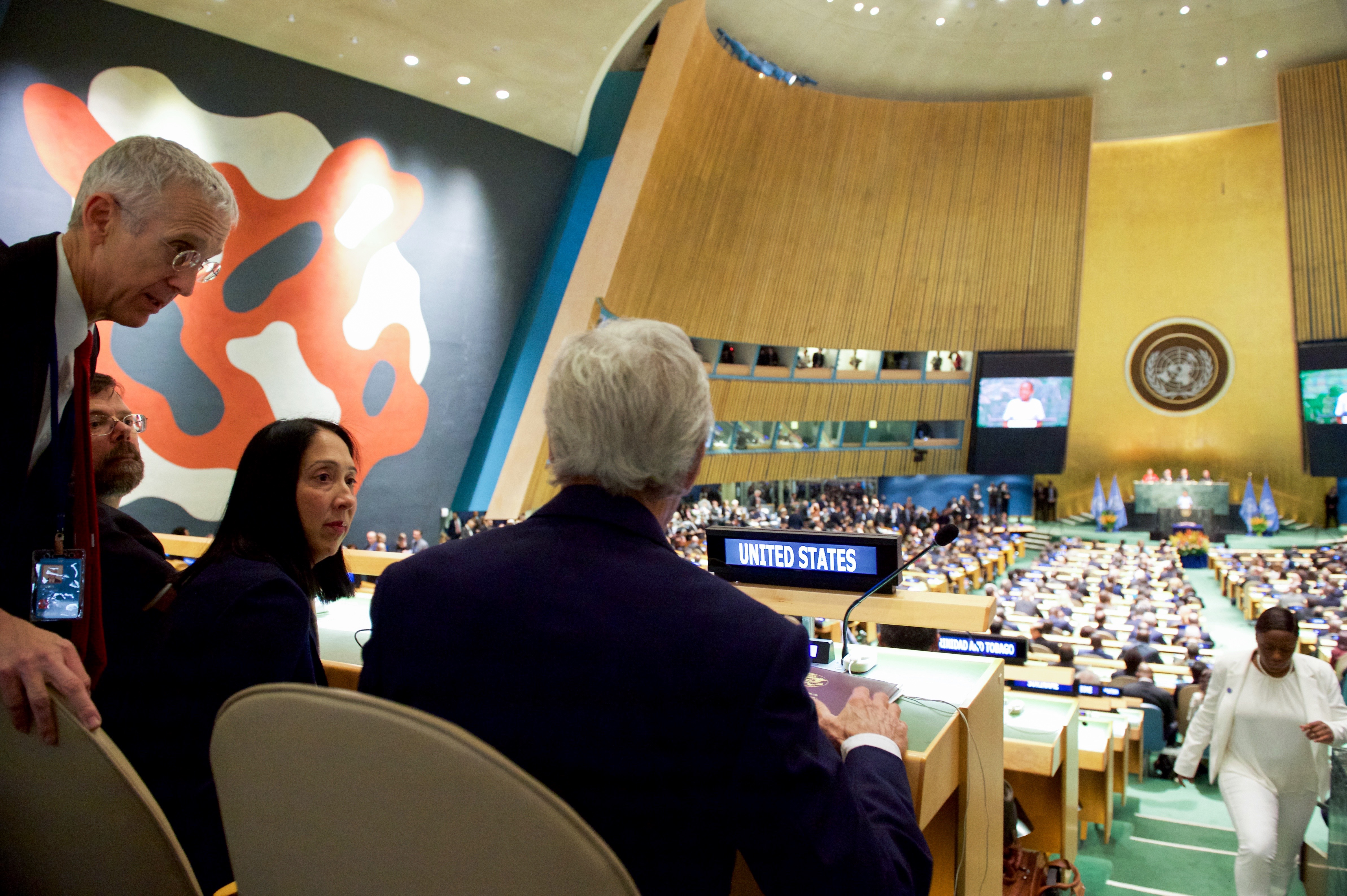 U.S. Secretary of State John Kerry speaks with former U.S. United States Special Envoy for Climate Change Todd Stern and U.S. Mission to the United Nations Charge d'Affaires Michele Sison during the opening of the United Nations Signing Event for the COP21 Climate Change Agreement (→ en-WP: Paris Agreement) on Earth Day, April 22, 2016, at the United Nations General Assembly Hall in New York, N.Y. [State Department photo/ Public Domain]